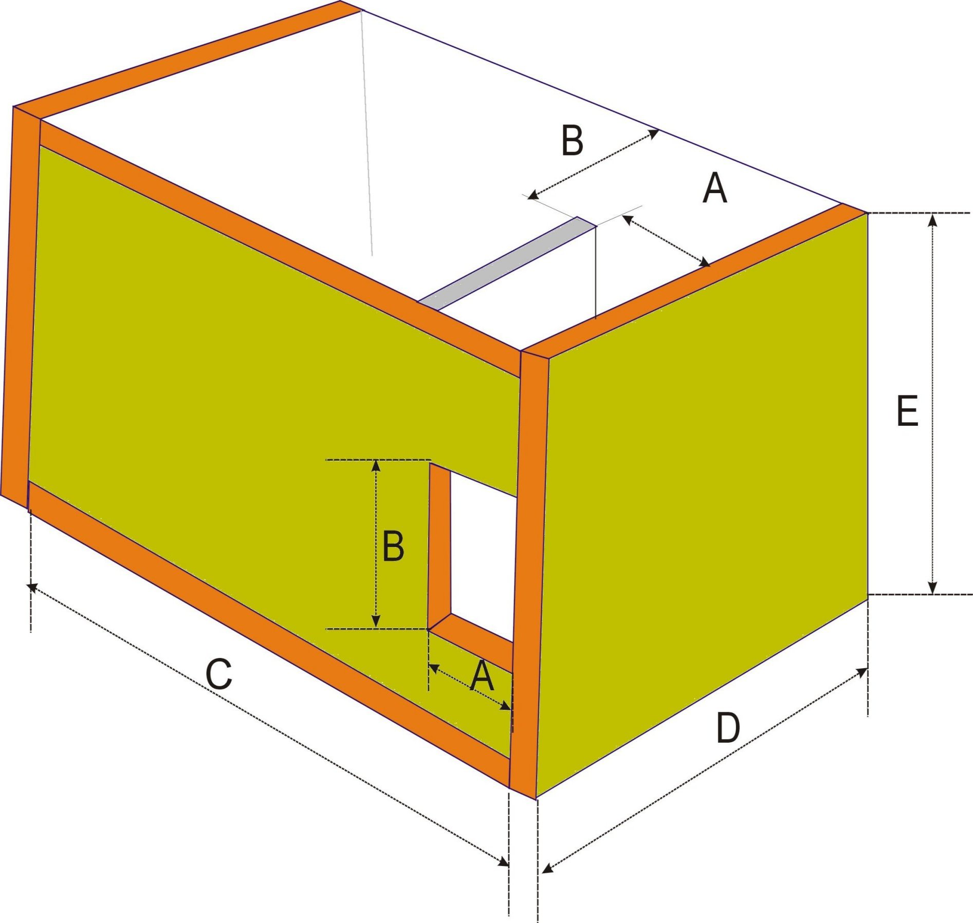 Nestbox for Barn Owl Tyto alba